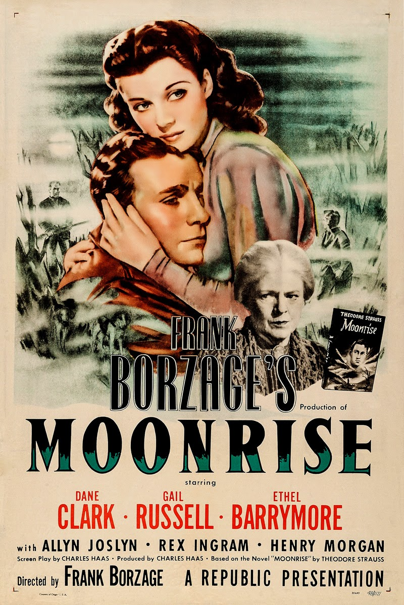 Poster for the 1948 film Moonrise. The original upload was a lobby card which looks to be PD-pre-1978, but I need to find a larger copy to prove that. Someone uploaded the poster, which is now proven to be PD, on top of it. We hope (talk) 19:09, 14 December 2014 (UTC) The item has no copyright markings on it as can be seen in the links above. At bottom is Country of origin USA and 35649 and 48/1171. These look to be associated with the printing of the poster.